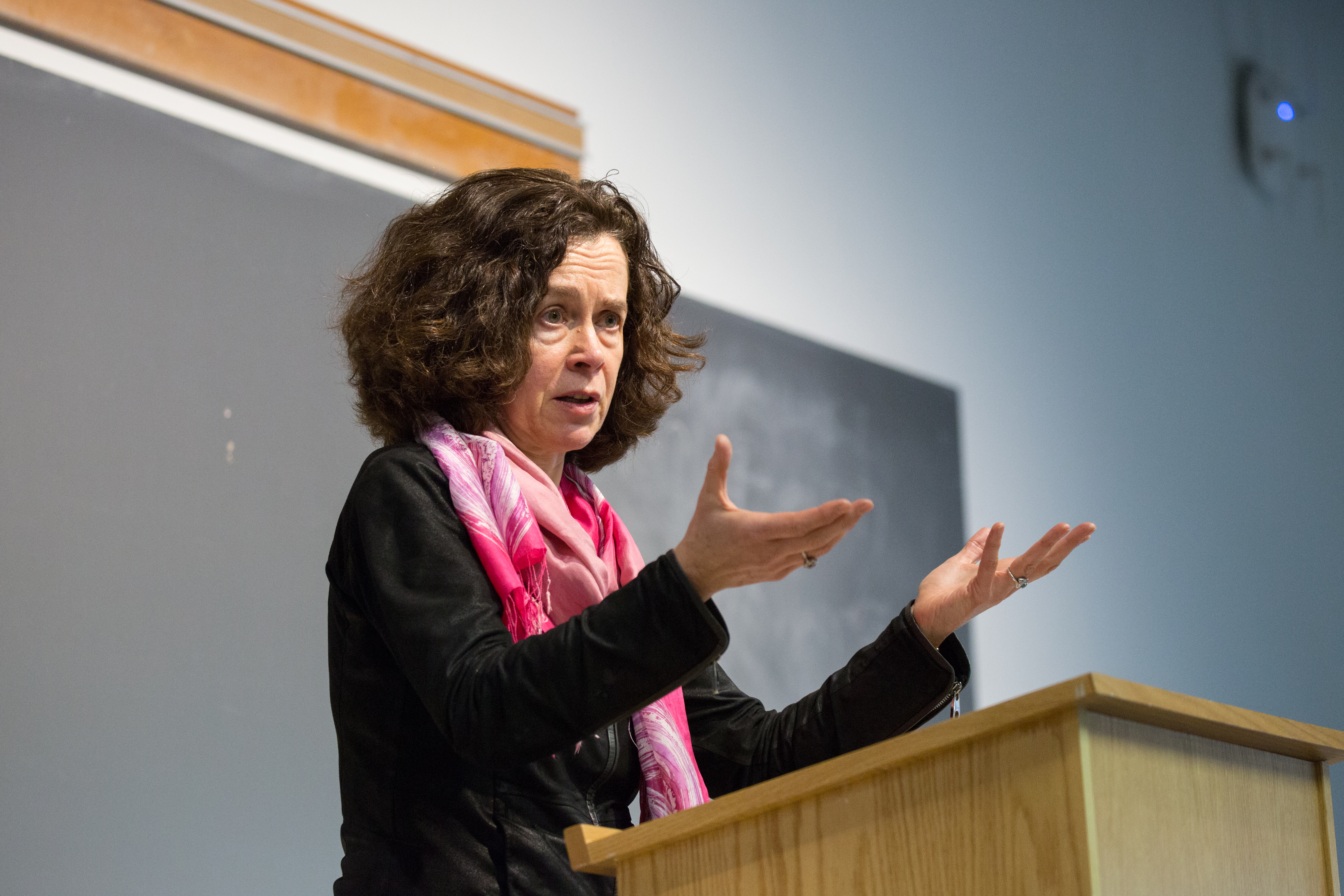 Rebecca M. Henderson at the Edmond J. Safra Center for Ethics.